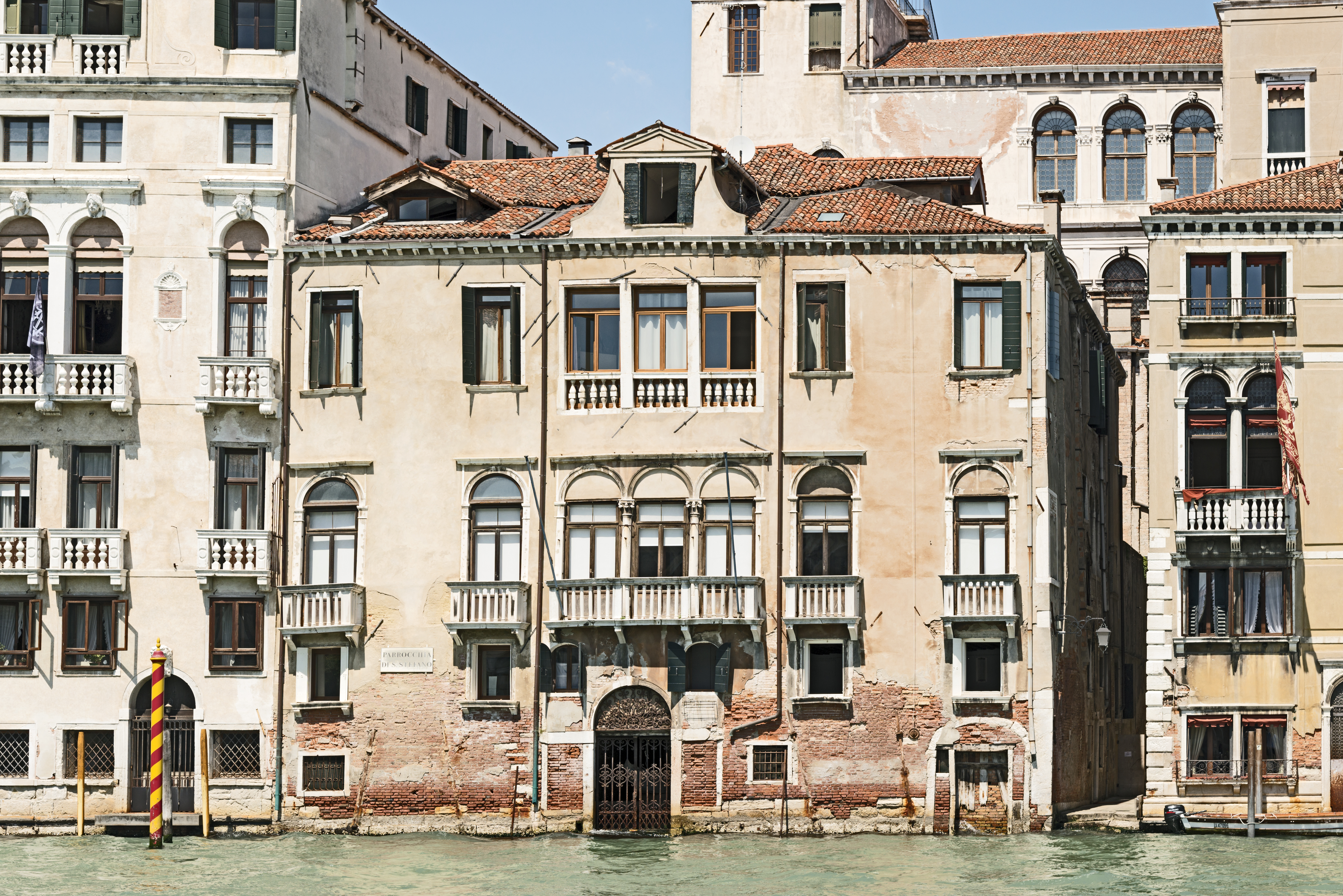 Palazzo Benzon Foscolo – Facade on Grand Canal, in Venice.